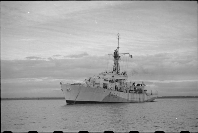 HMS Coppercliff Underway.